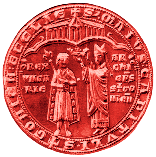 Sigillum Maius Capituli Strigoniensis Ecclesiæ